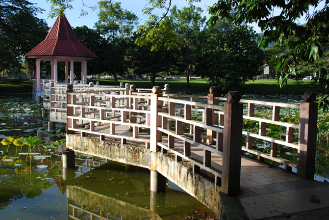 A traditional zigzag footbridge, in simple concrete — at the Taiping Lake Gardens, in Malaysia. There were loads of water lily plants beneath the bridge.